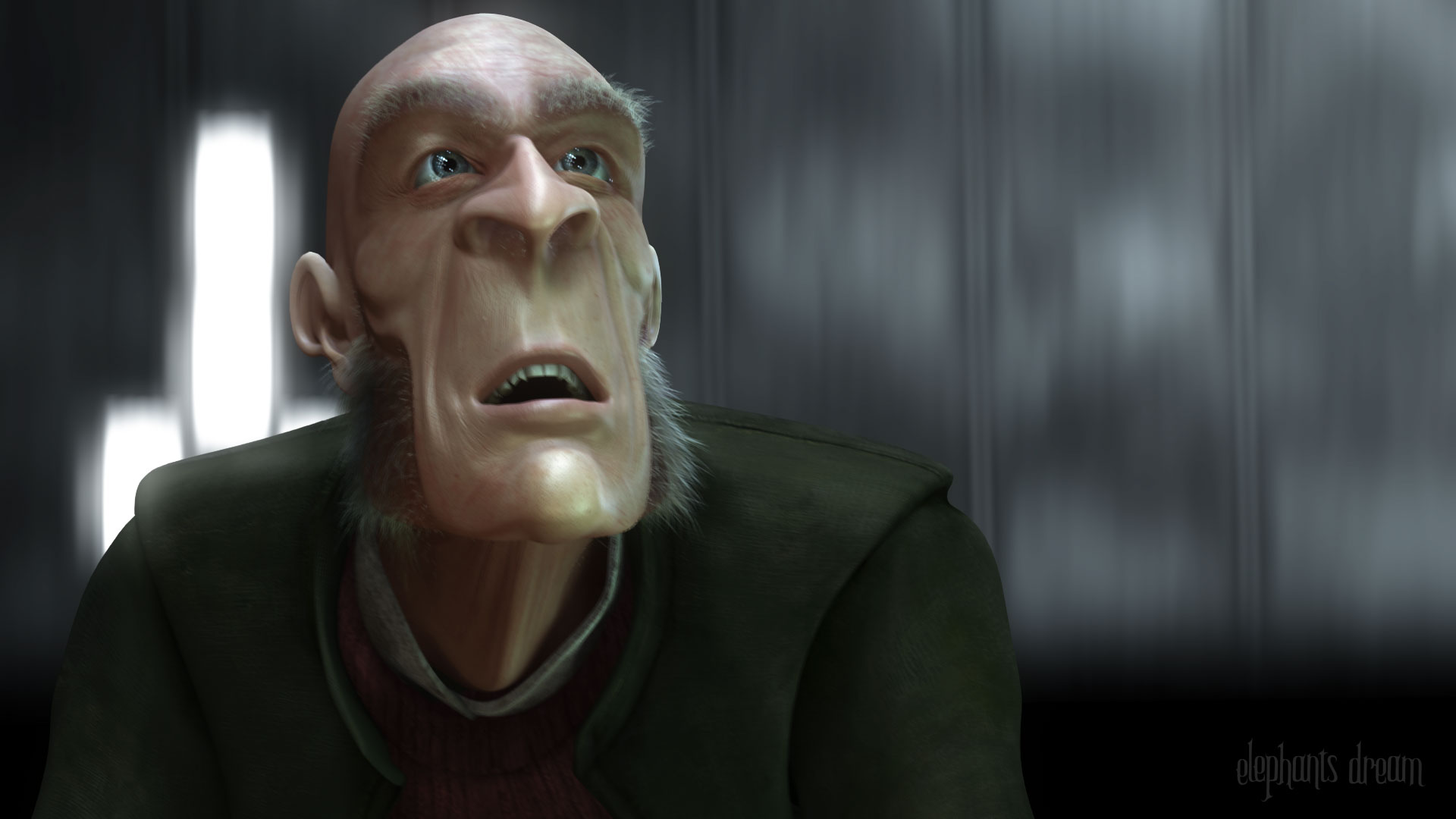 Image from the film Elephants Dream.